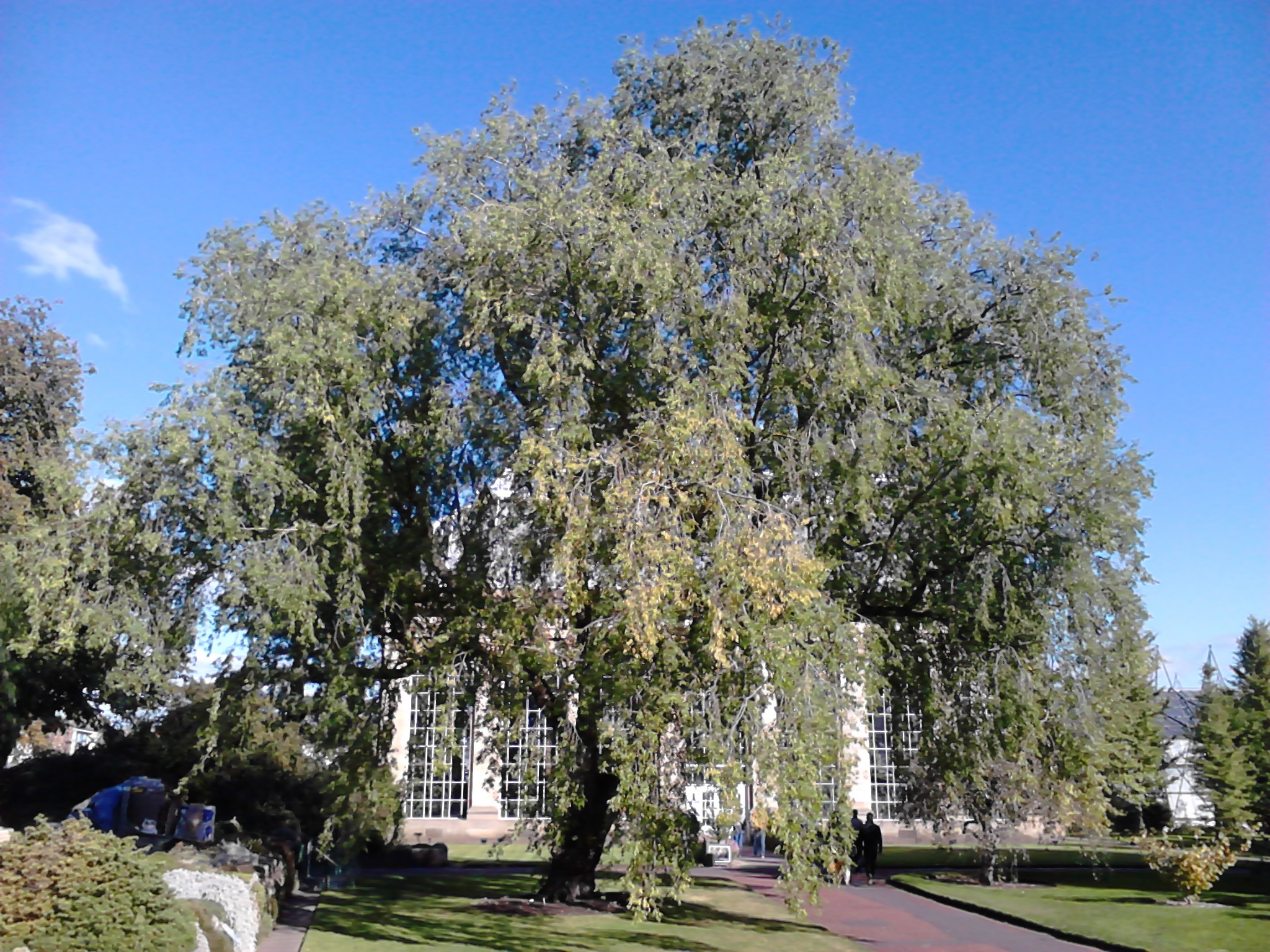 Ulmus pumila 'Turkestan', ex-Spath 1902. Royal Botanic Gardens, Edinburgh